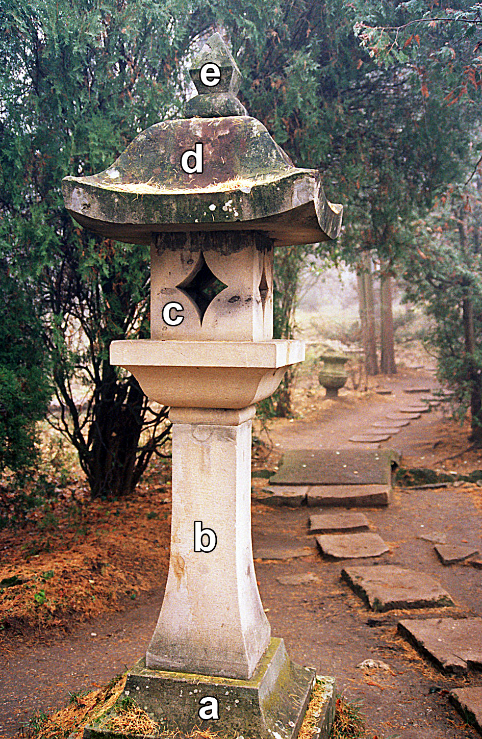 Stone lantern in Botanical garden in Cluj-Napoca